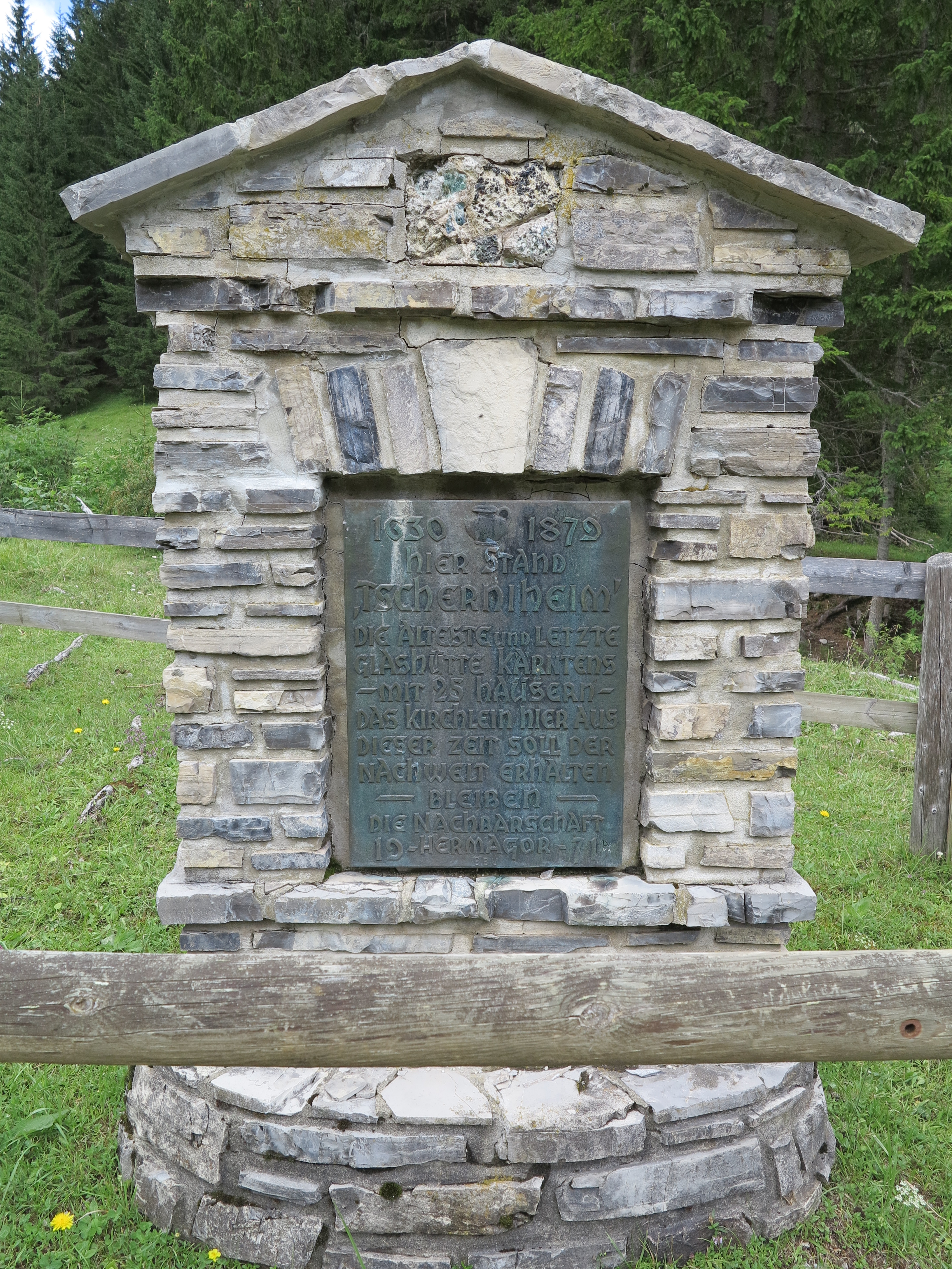 Commemorative plaque for the village glassblower Tscherniheim, a place of Forest glass production from 1621 to 1879 in the municipality Hermagor-Pressegger See in Carinthia / Austria / EU. The plaque is made of copper and is inserted into a stone-brick podium.